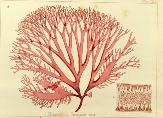 Nemastoma feredayae by William Henry Harvey from "The botany of the Antarctic voyage of H.M. discovery ships Erebus and Terror in the Years 1839-1843." Plate CXCV